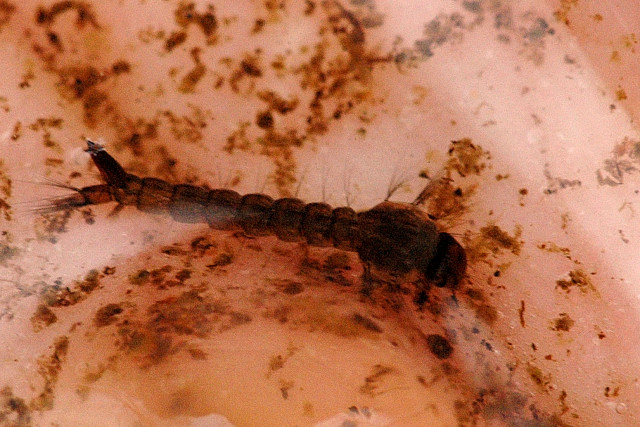 Picture taken in Commanster, Belgian High Ardennes . Species: Ochlerotatus punctor larva